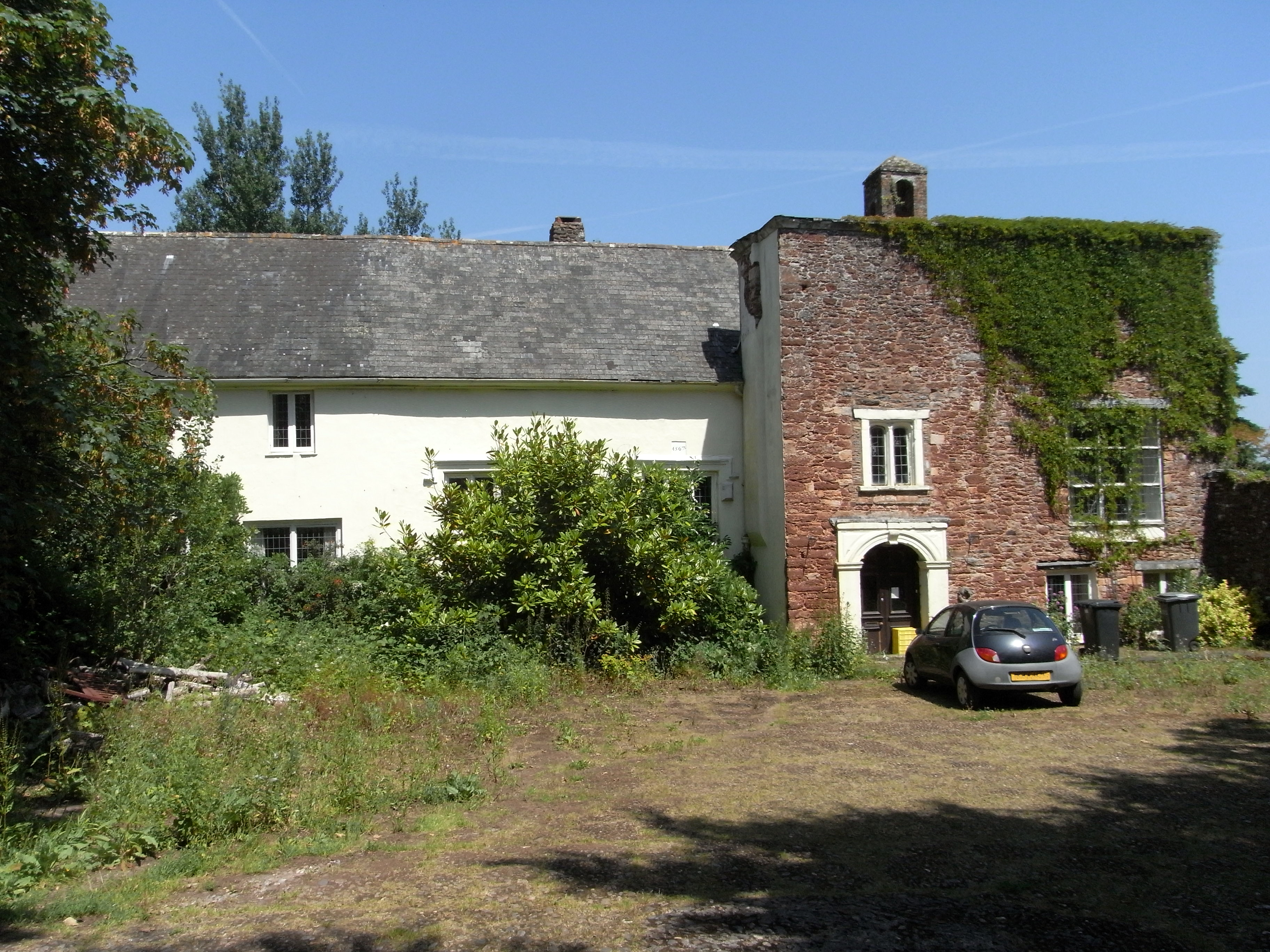 Blagdon Manor House, in the parish of Collaton St Mary (anciently in the parish of Paignton), Devon. The two large windows of the great hall are situated behind the overgrown Magnolia Grandiflora tree, to the left of the front door and screens passage. Date stone above inscribed: "1567". Today situated behind the "Blagdon Inn" public house (former stables), and almost surrounded by the "Devon Hills Holiday Park" (caravans/mobile homes), set-back at the end of a short driveway off the A385 Paignton to Totnes road. In the 16th century and prior the seat of the Kirkham family, whose chantry chapel ("Kirkham Chantry") with magnificent sculpted stone screen, survive in St John's Church, Paignton. Their heir was the Blount family, whose coat of arms dated 1708 survives above the fireplace in the great hall. In 2013 it was being used use as clubhouse and bar for the adjoining caravan site.